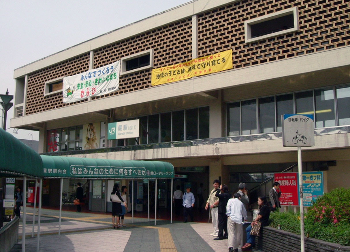 Warabi Station (west entrance)